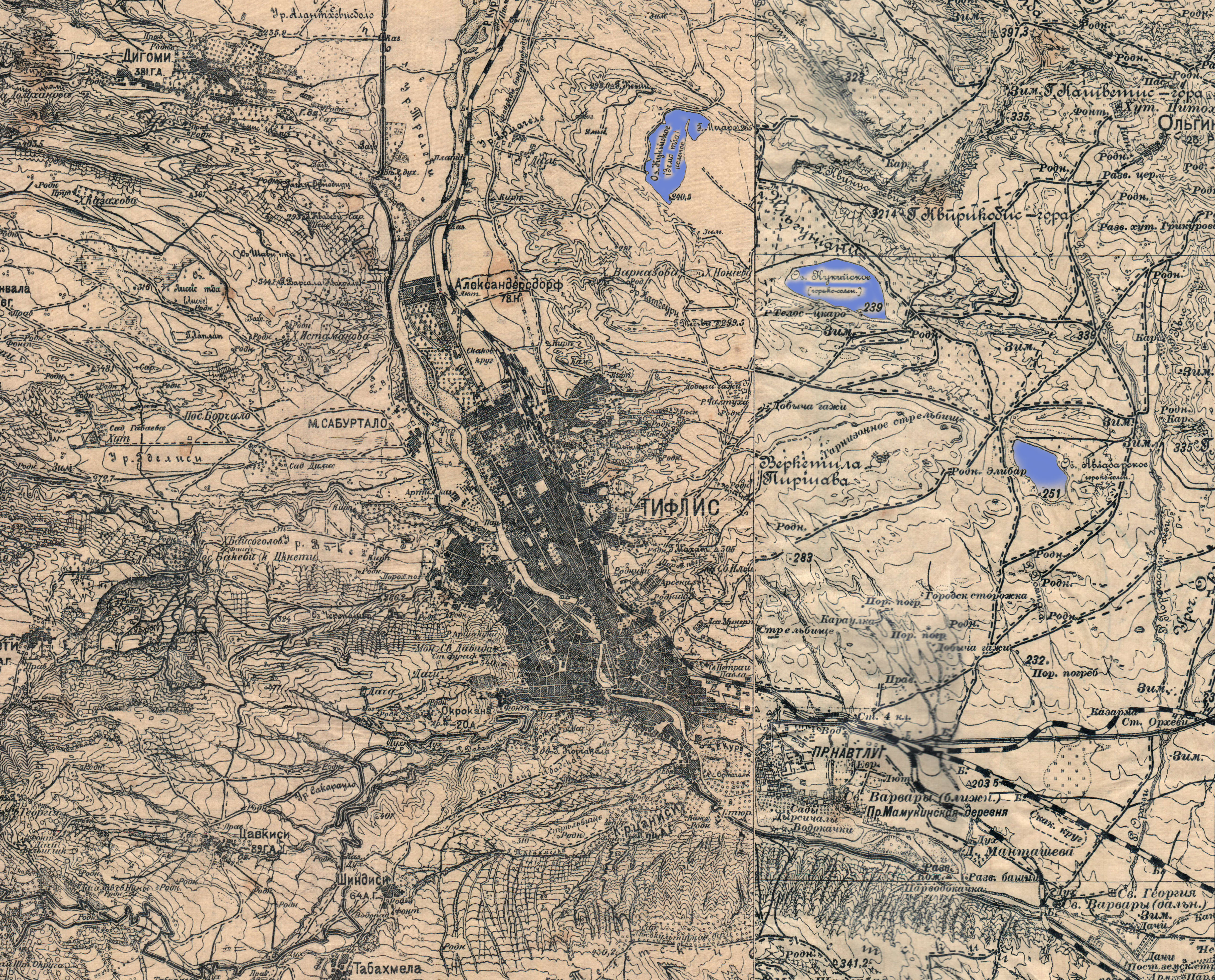 Tbilisi map 1911